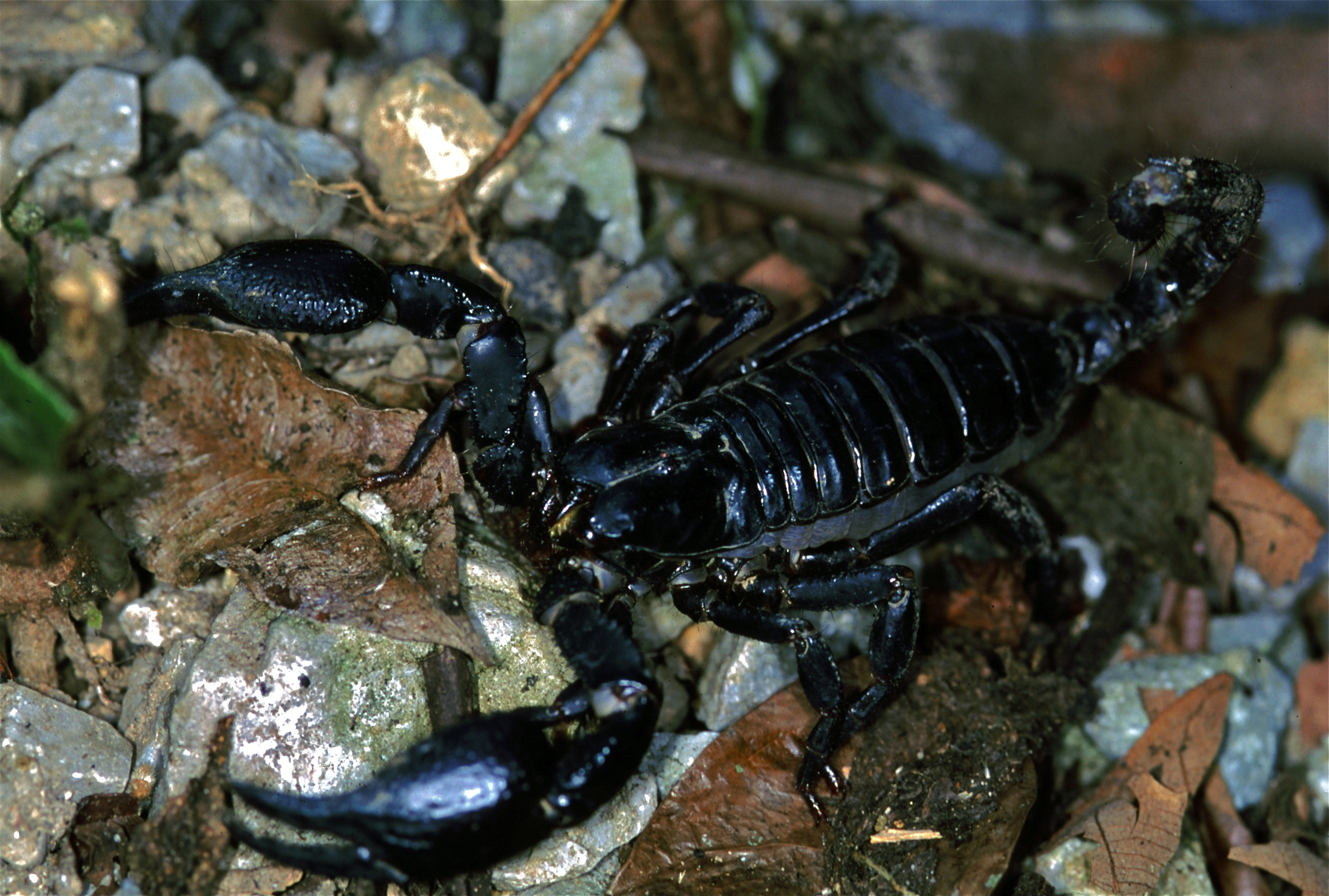 Khao Yai NP, THAILAND Scanned Slide from 2003